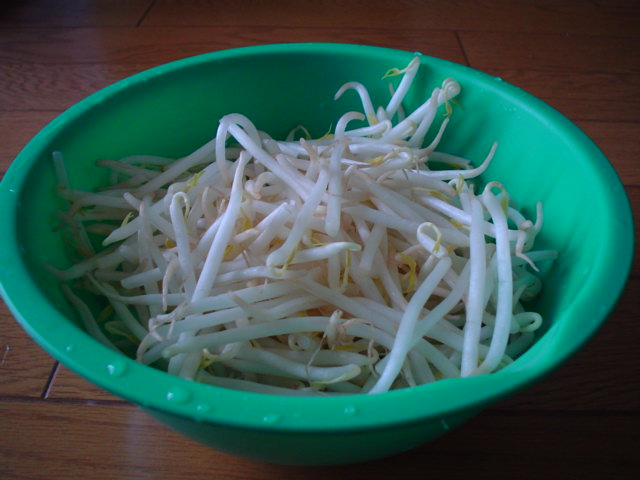 sprout